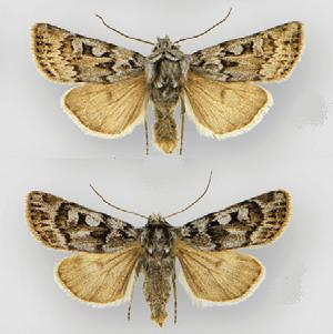 Euxoa churchillensis male (top) female (bottom)